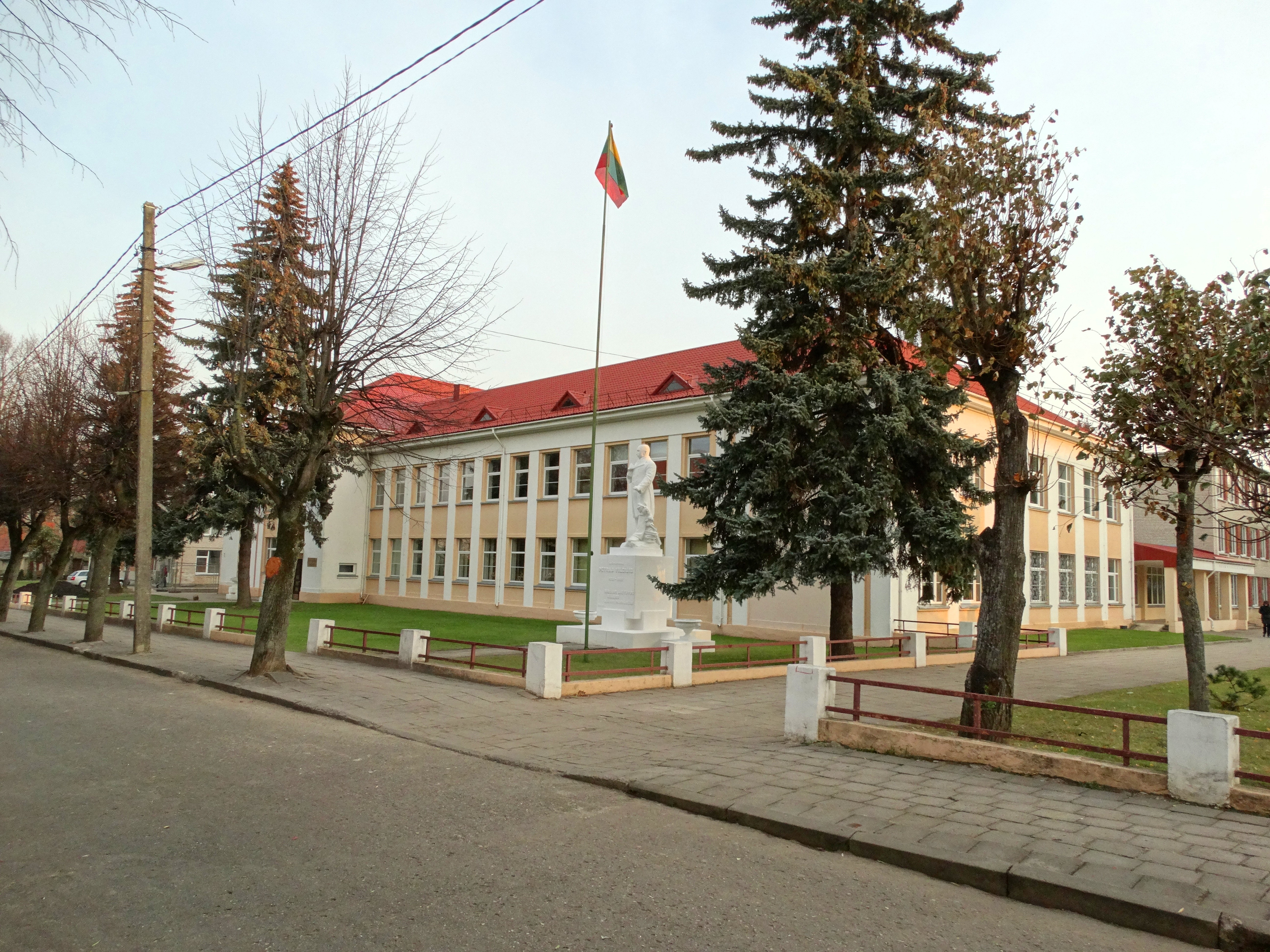 Petras Vileišis Gymnasium, Pasvalys, Lithuania